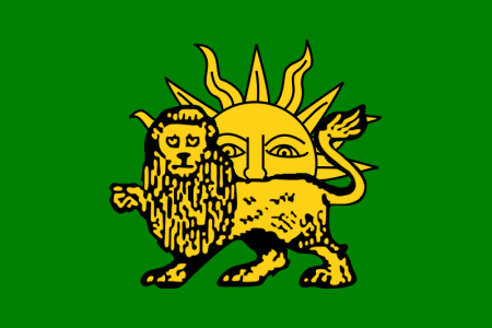 Flag of the Safavid Dynasty from 1576[1] to 1666[2][3]